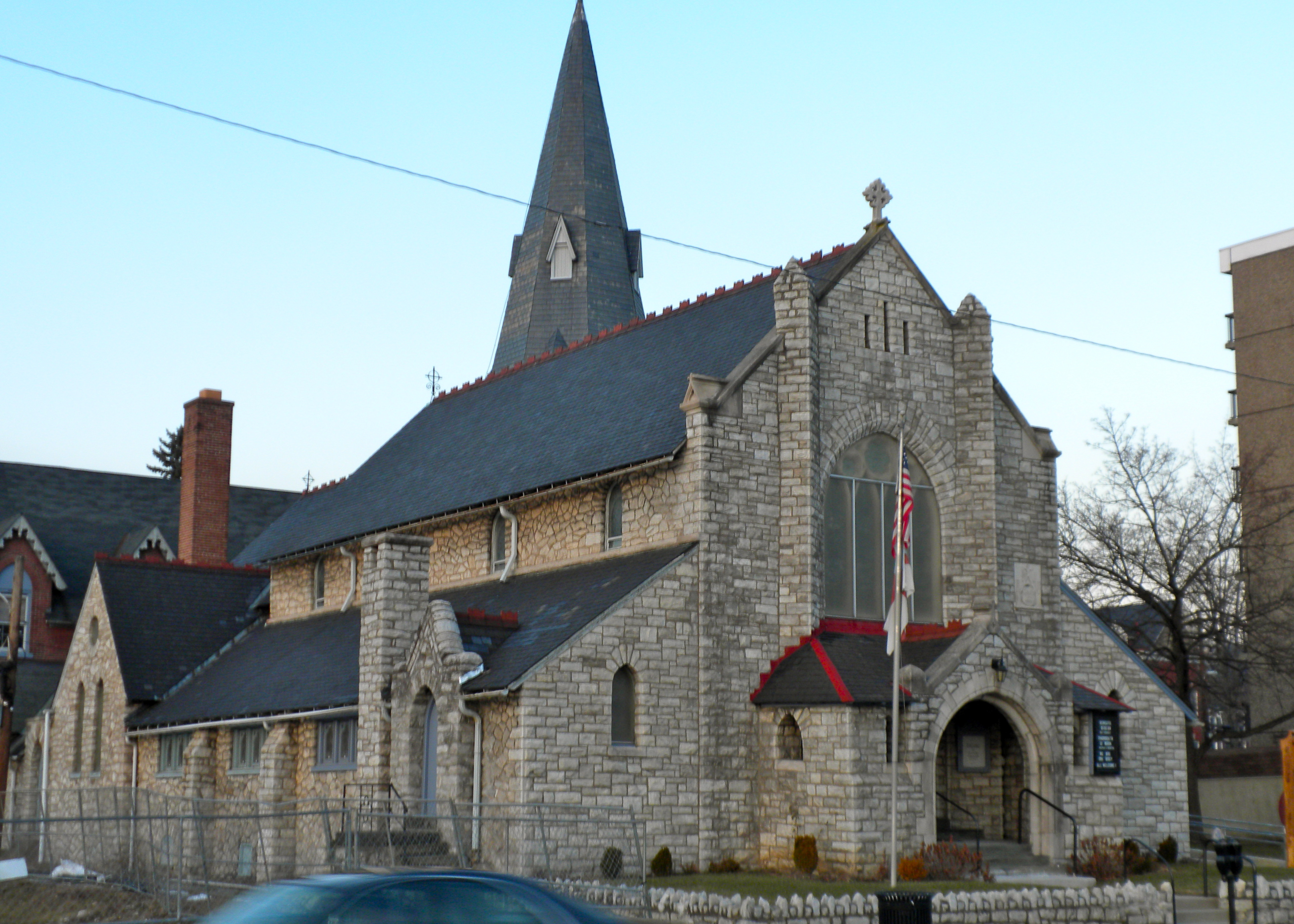 Trinity Episcopal Church on Lancaster Ave (Old Rt. 30) the main street in Coatesville, PA The best preserved building in what used to be a very nice downtown, but downtown is looking pretty rundown. Might be in a NRHP Historic District, but I'm not sure.